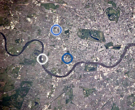 Satellite image showing locations of Chelsea, Fulham, and Queen's Park Rangers football stadia, London